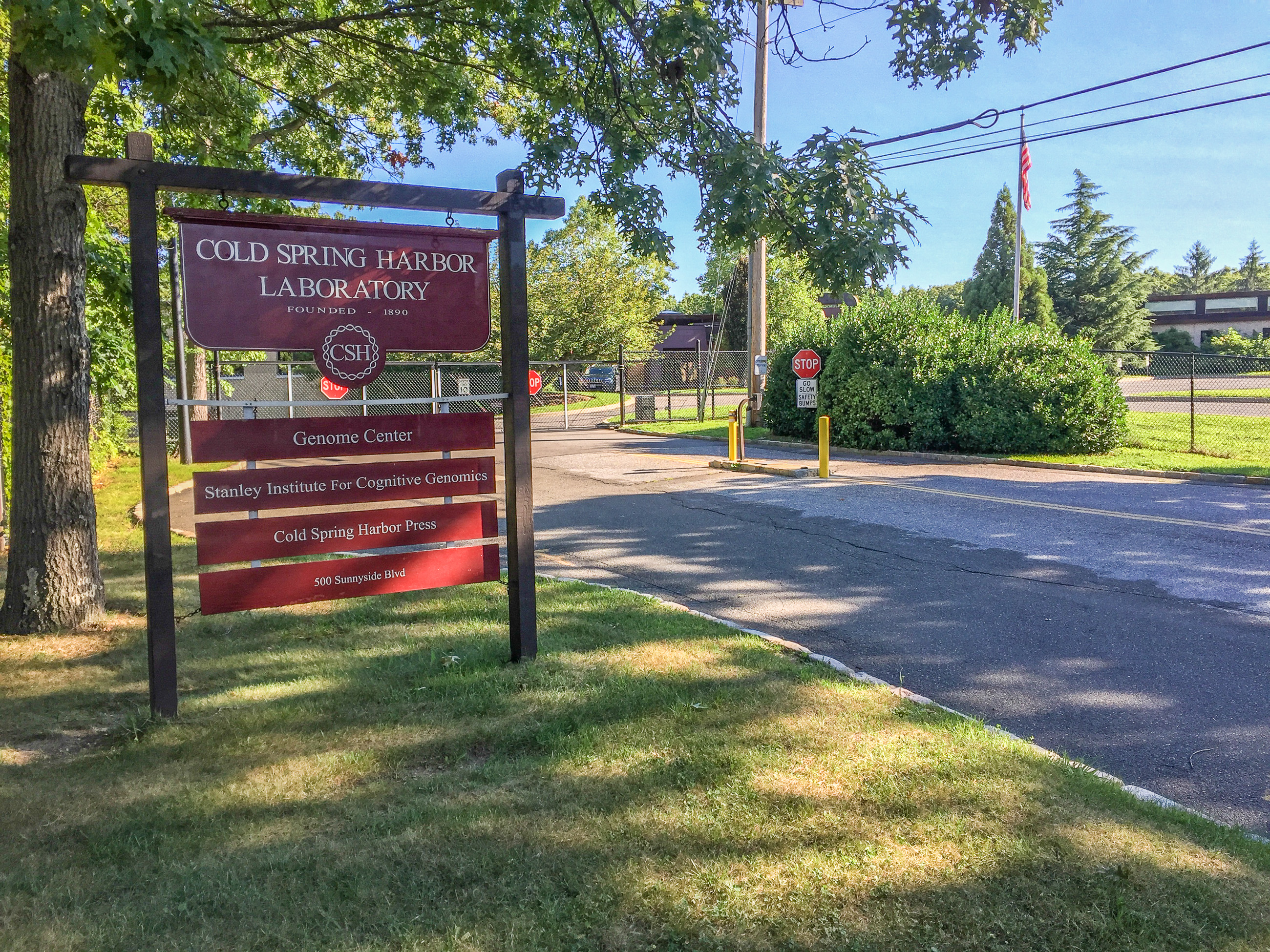 Sign for Cold Spring Harbor Laboratory, New York.